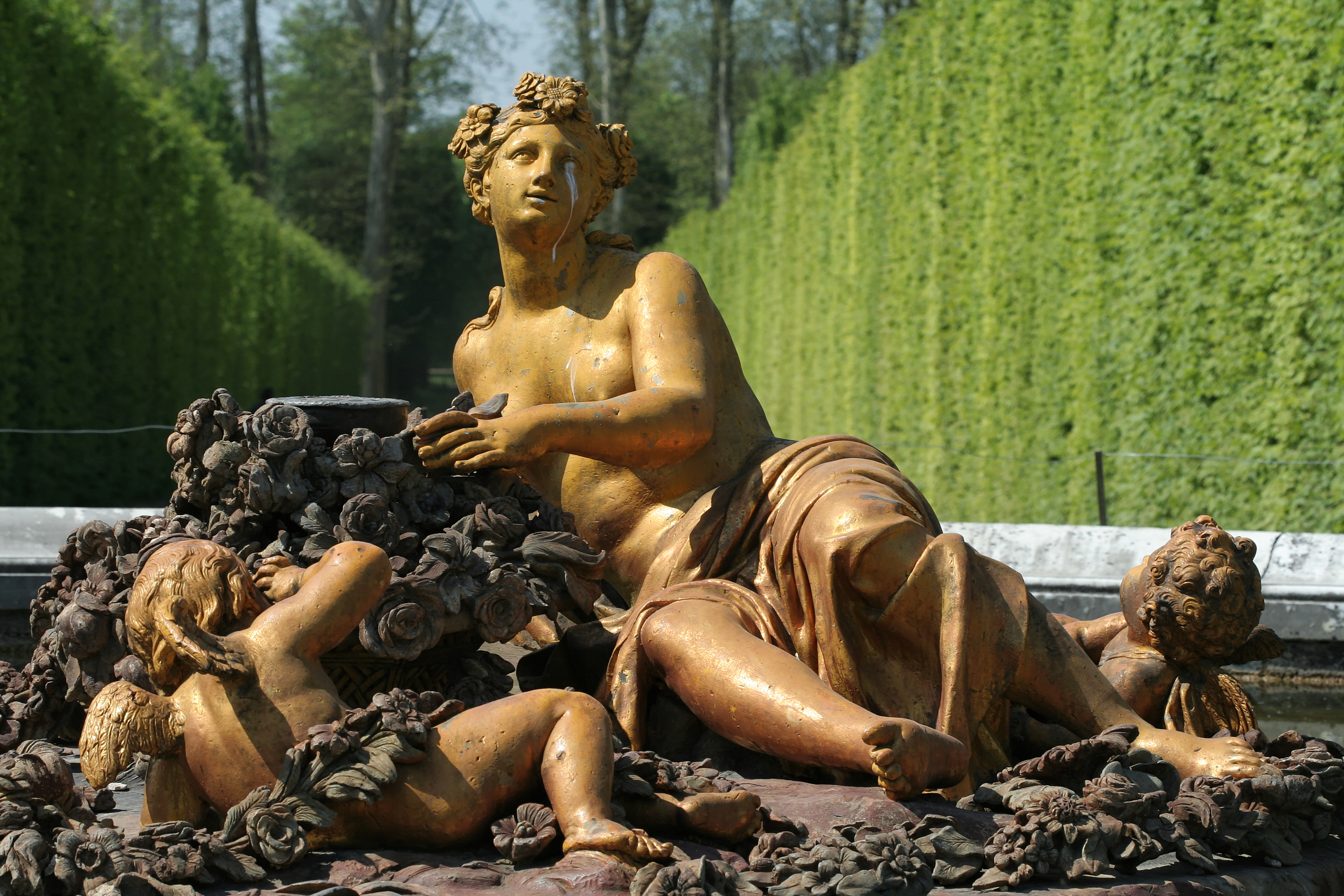 Flora, resting on a flowerbed (Anemones, Roses, cornflowers and heliotropes), surrounded by four Putti crownen with dog roses and linked with flower garlands. Golden lead sculpture by Jean-Baptiste Tuby (1672–1679), part of the Four season bassins, in Versailles gardens.